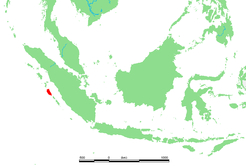 Location of Siberut, Indonesia